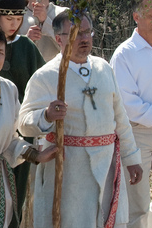 Vaidila Jonas Vaiškūnas during a procession with the Romuva community in Lithuania